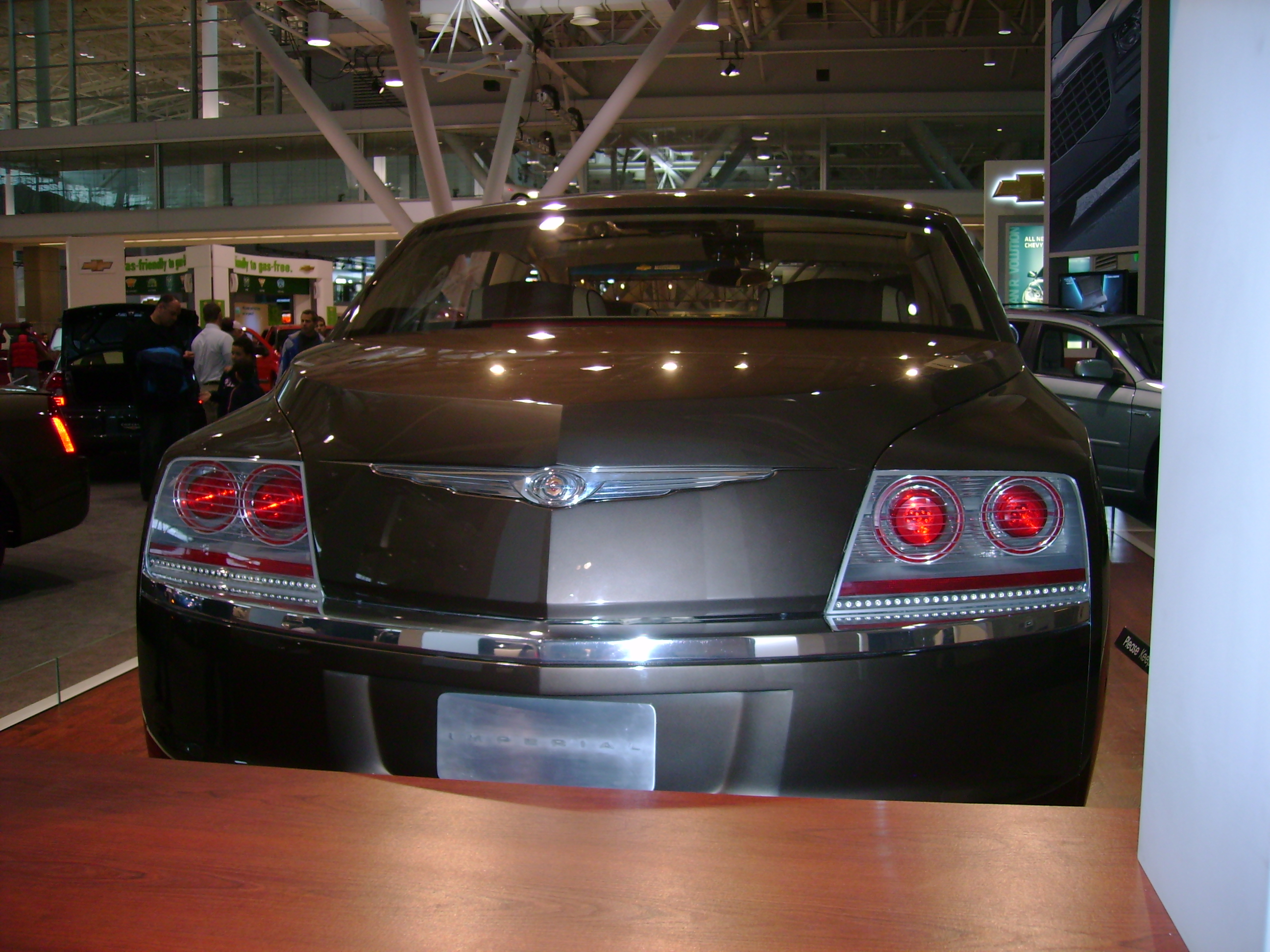 Chrysler Imperial concept phoyographed in USA. Though allegedly cancelled, in July '07, it's still being shown at Auto Shows as of December '07.